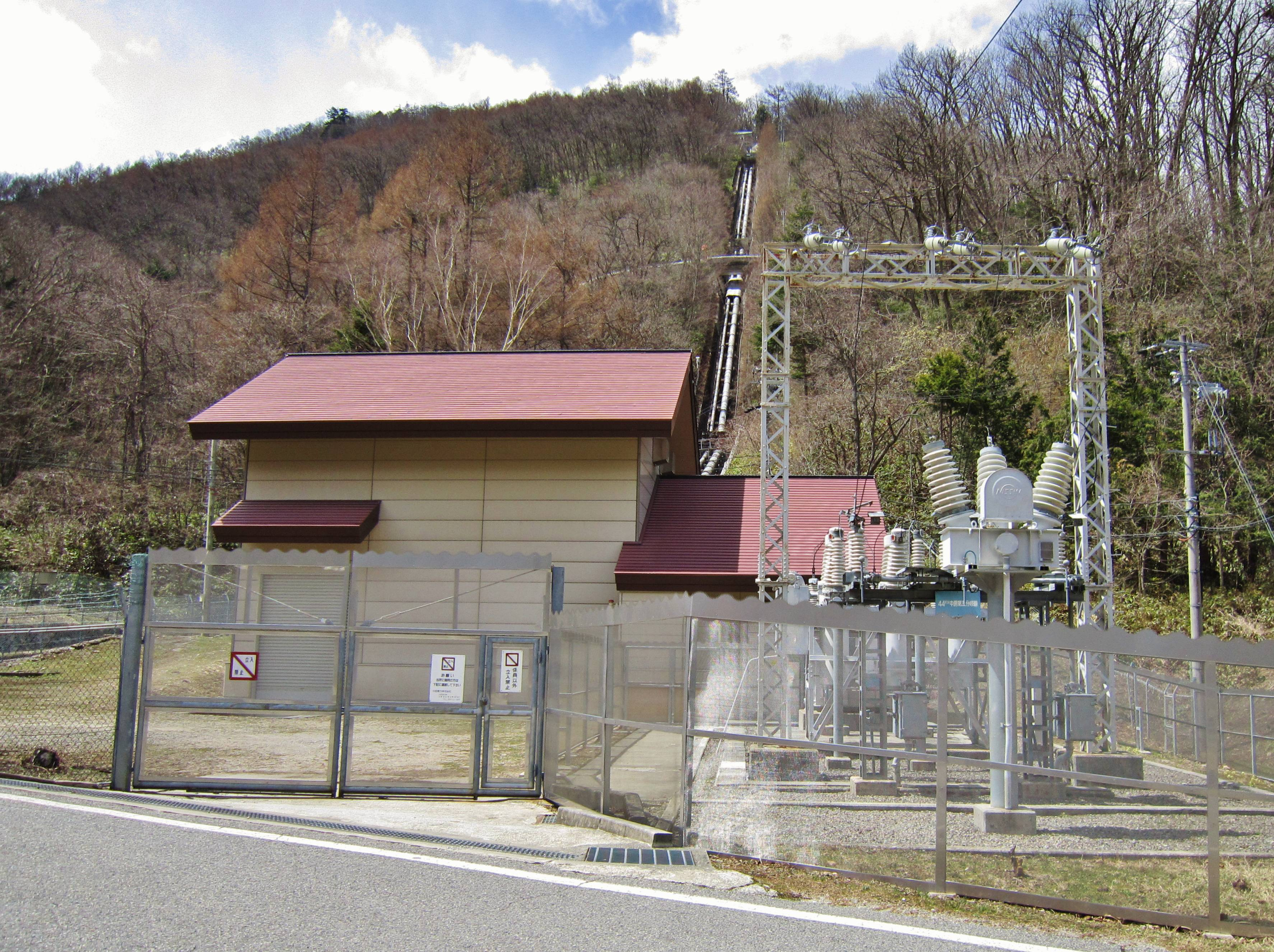 Nakabusa V power station.